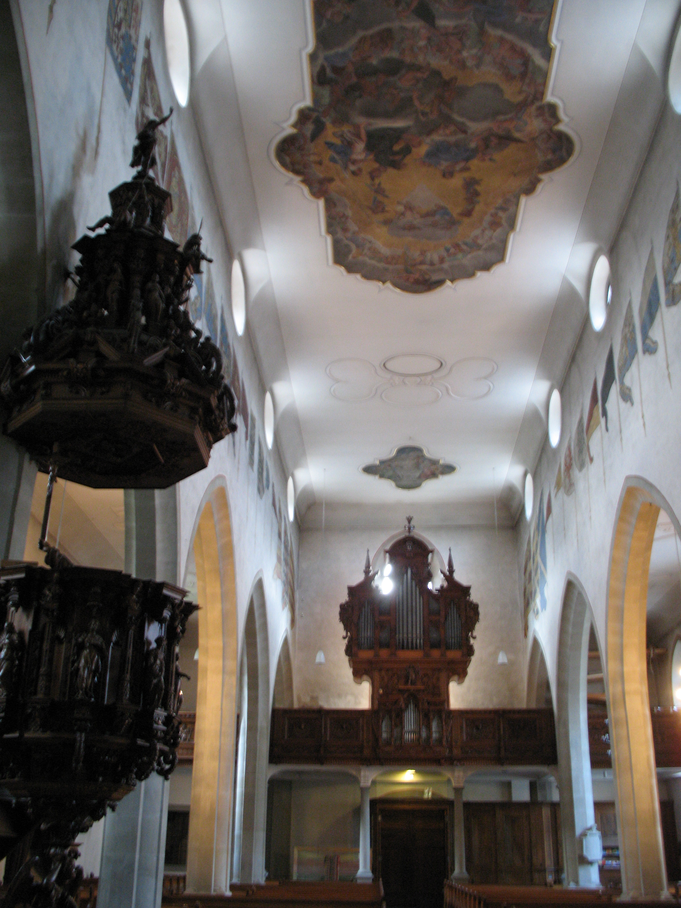 Franciscan Church, Luzern, Switzerland